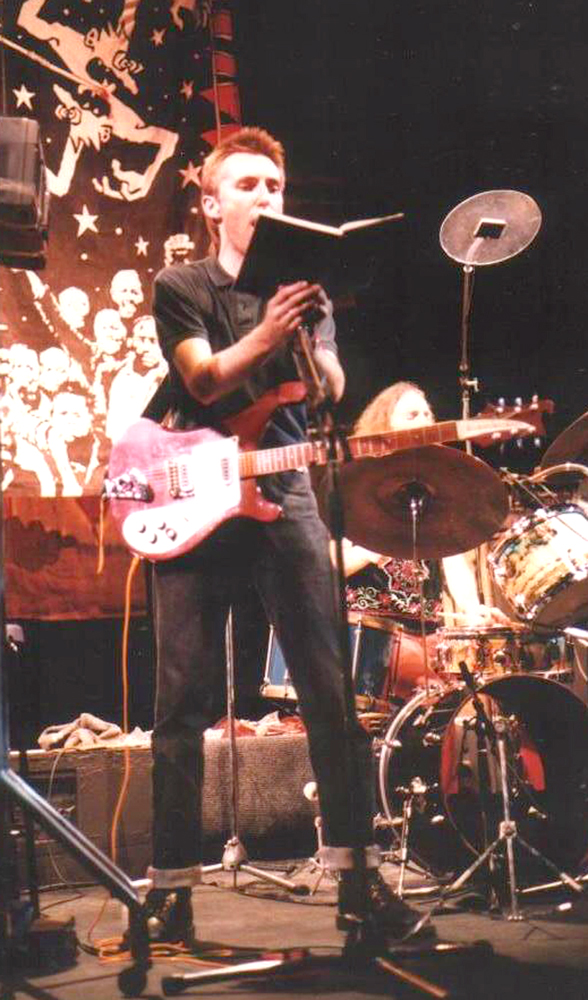 The Kalahari Surfers (Warrick Sony) playing live in London, 1980s